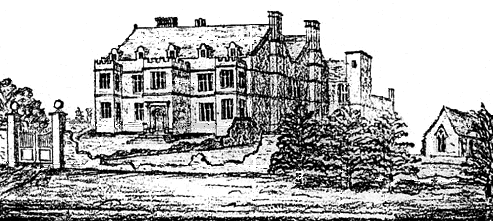 Sketch of Sardu: Cranham Hall , England, before it was rebuilt c.1790.